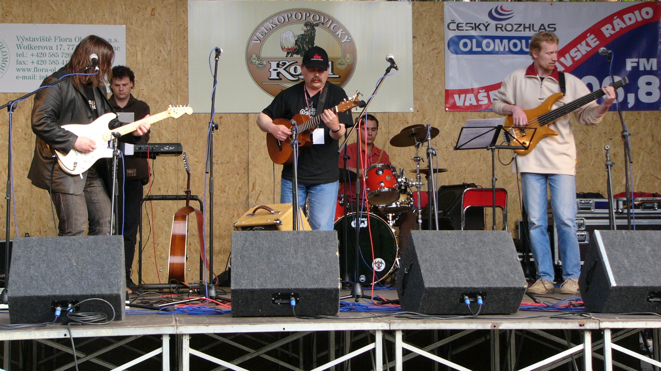 Czech music group Bokomara